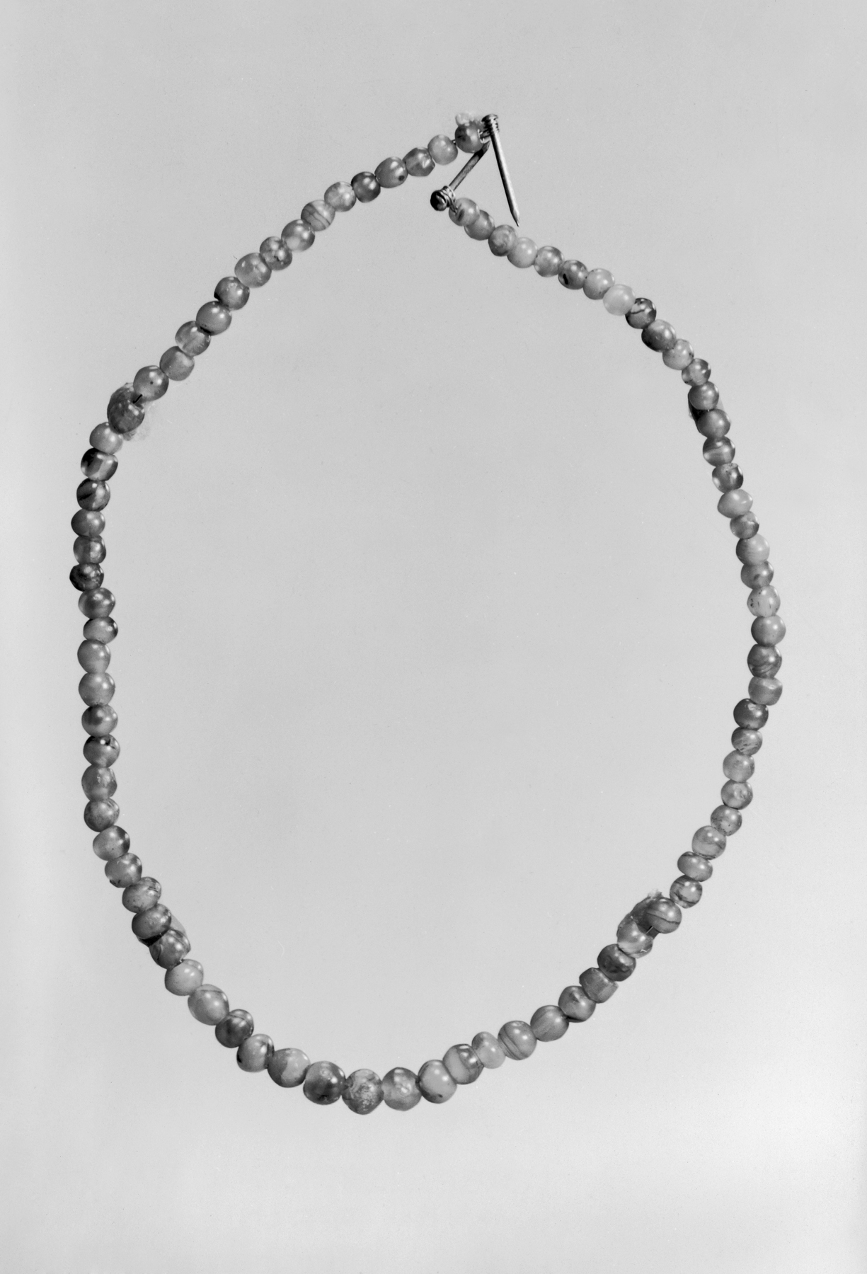 These beads have been restrung.